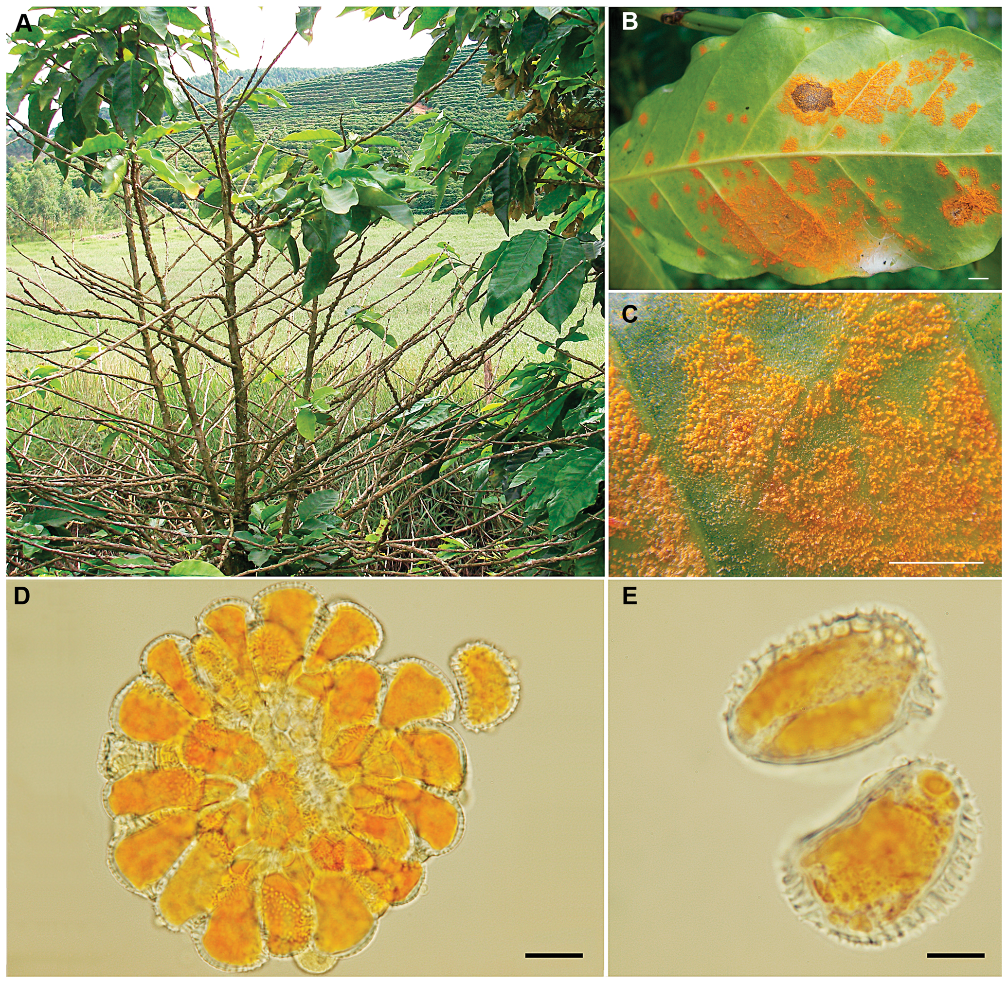 (A) Defoliation in a coffee plantation, Coimbra, Minas Gerais, Brazil; (B) Leaf symptoms on abaxial surface (bar = 0.5 cm); (C) Detail of suprastomatal uredinial pustules coalescing over lower leaf surface (bar = 0.5 cm); (D) Uredinium showing arrangement of spores (bar = 20 µm); (E) Urediniospores - showing the thickened, heavily-ornamented or verrucose upper wall – containing carotenoid lipid guttules imparting the yellow-orange colour (bar = 10 µm).